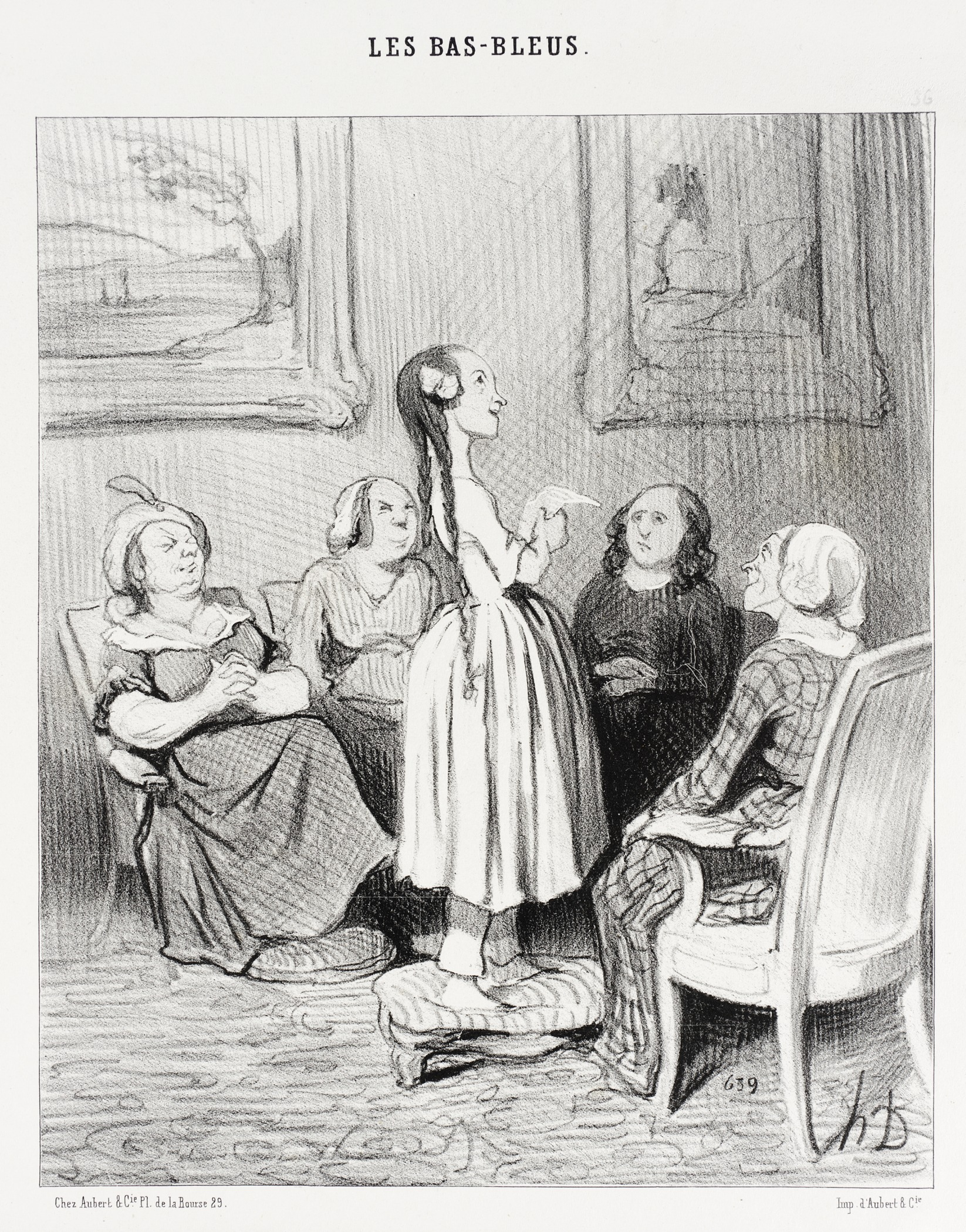 France, 1844 Series: Les bas-bleus, no. 36 Periodical: Le Charivari, 26 July 1844 Prints; lithographs Lithograph Sheet: 8 3/8 x 6 15/16 in. (21.27 x 17.62 cm) Gift of Mrs. Florence Victor from The David and Florence Victor Collection (M.91.82.50) Prints and Drawings